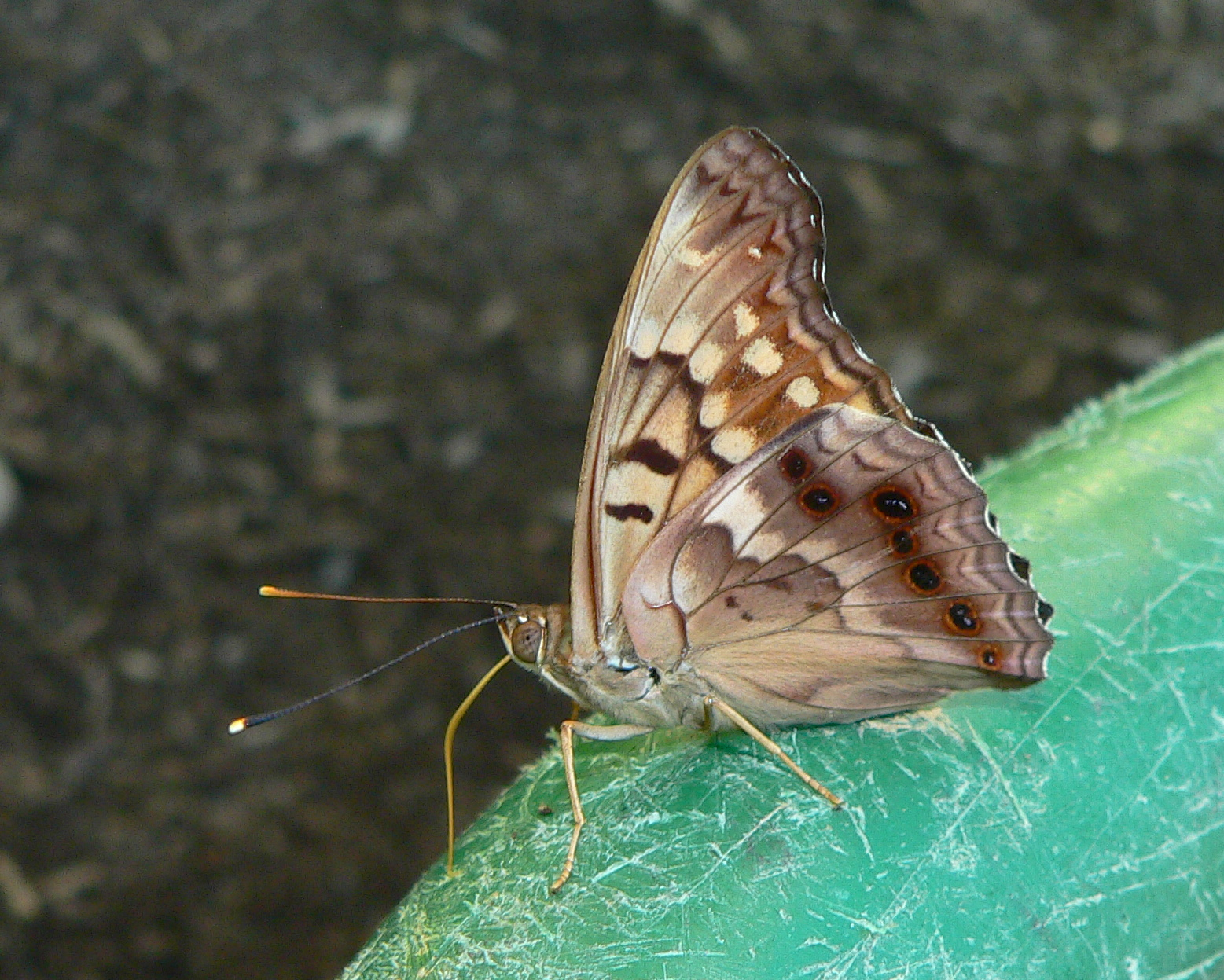 Tawny emperor ventral view - taken in Cincinnati, OH.